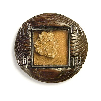 Laszlo Szlavics Jr.: Holy ground